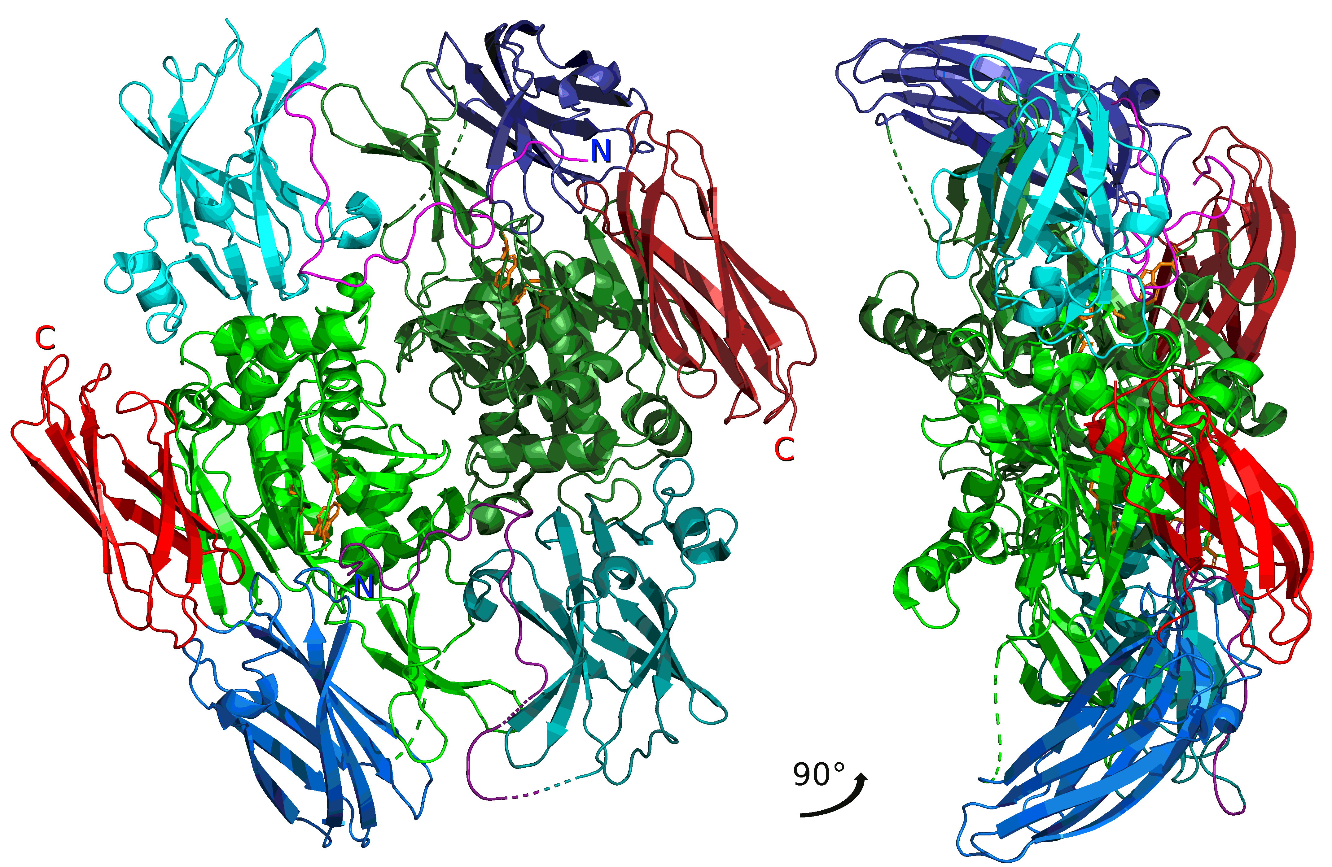 Inactive human blood clotting factor XIII (PDB: 1EVU), a transglutaminase. Homodimer of catalytic A1 peptides (gene F13A1) is shown. XIII in human blood is actually a heterotetramer of 2 A1 peptides and 2 B peptides (gene F13B). B peptides are not shown, but would form a ring-like structure around the A1 dimer. N- & C-terminals are shown as "N" and "C". Protein on the left is rotated 90° about its y-axis and the result is on the right. Domains: Magenta (N-terminal): activation peptide, which is removed when XIII is activated to XIIIa Cyan: β-sandwich Green: catalytic core (orange: catalytic amino acid residues C314, H373-D396 and W279 are shown) Blue: β-barrel 1 Red (C-terminal): β-barrel 2 Sructure from Source for info: Muszbek L et al (2011). Physiological Reviews. 91 (3): 931–972.